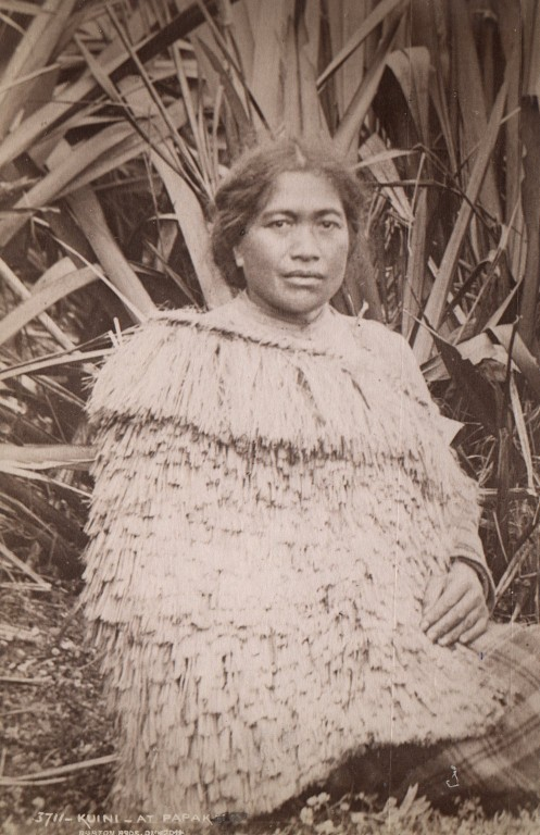 Province. D' Auckland - Papakura. Femme Maorie portant l' ancien costume en fibre végétale. Papakura, Auckland Province. Maori woman wearing the traditional costume made of flax fibre.